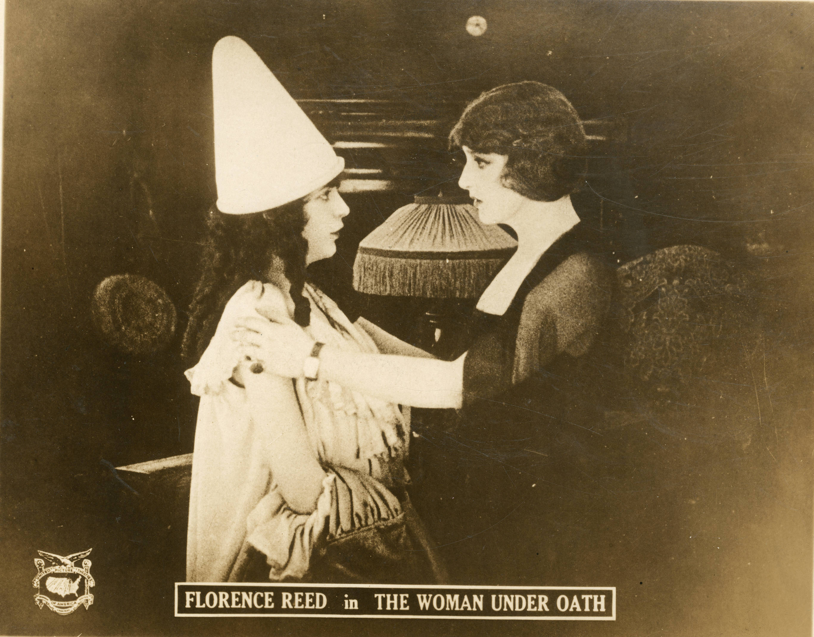 A scene from the American drama film The Woman Under Oath (1919), with Florence Reed. Dated Nov. 12, 1919. Subjects: motion pictures, actresses